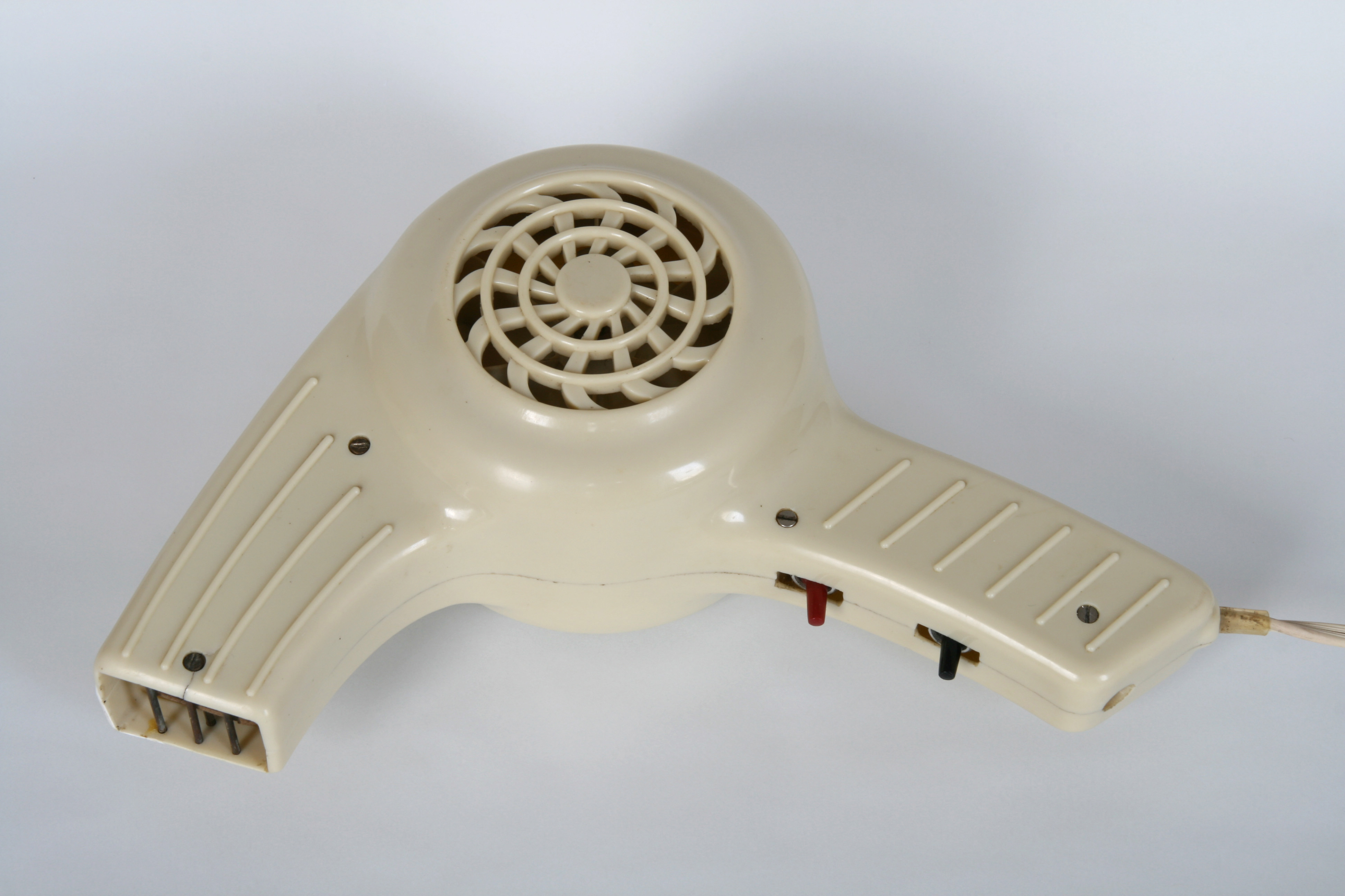 Hairdryer Solis Typ 54 made from Bakelite, c. 1958, Swiss made. Left side